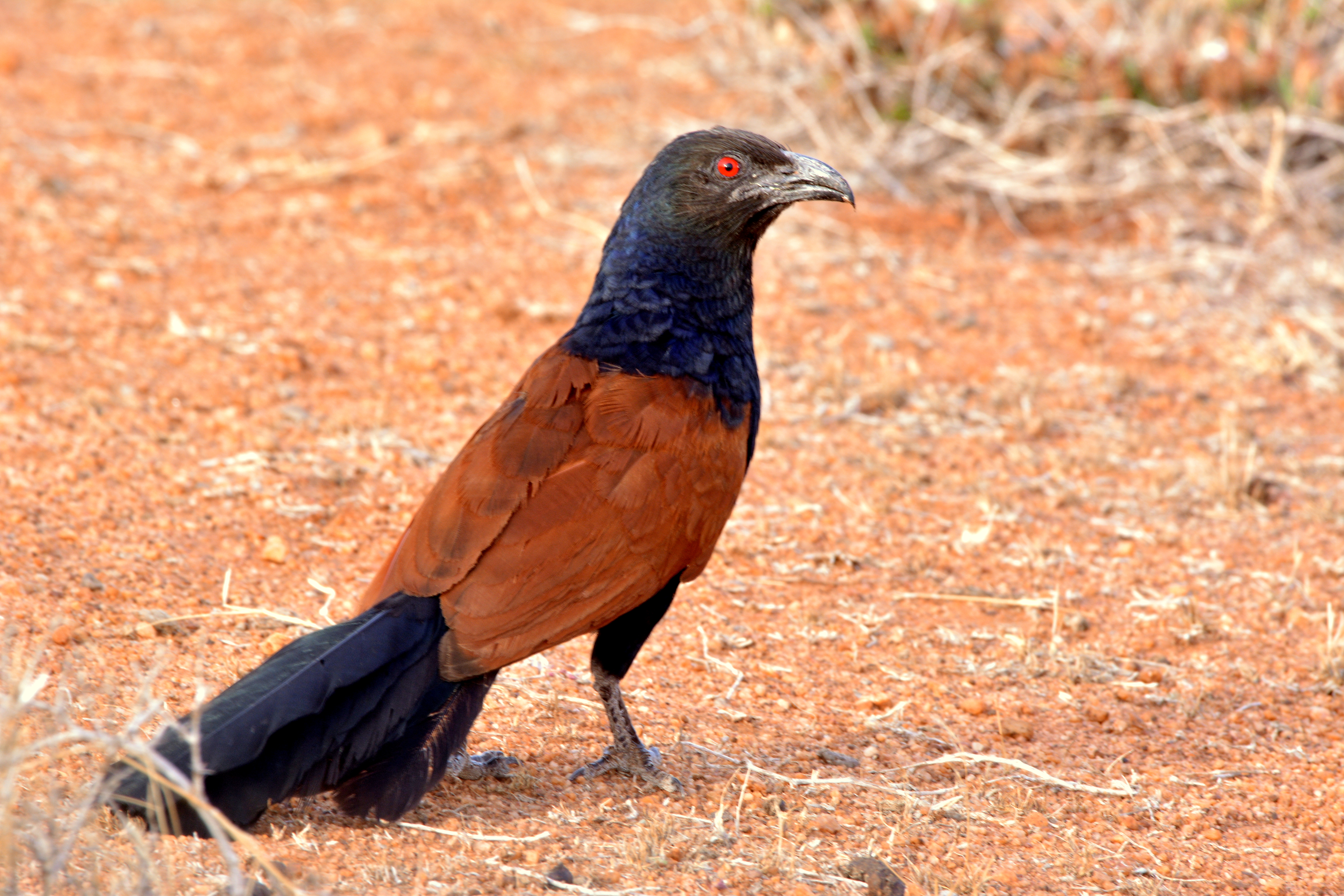 Greater Coucal (Centropus sinensis) செம்பகம் taken at Tirunelveli, Tamilnadu, India